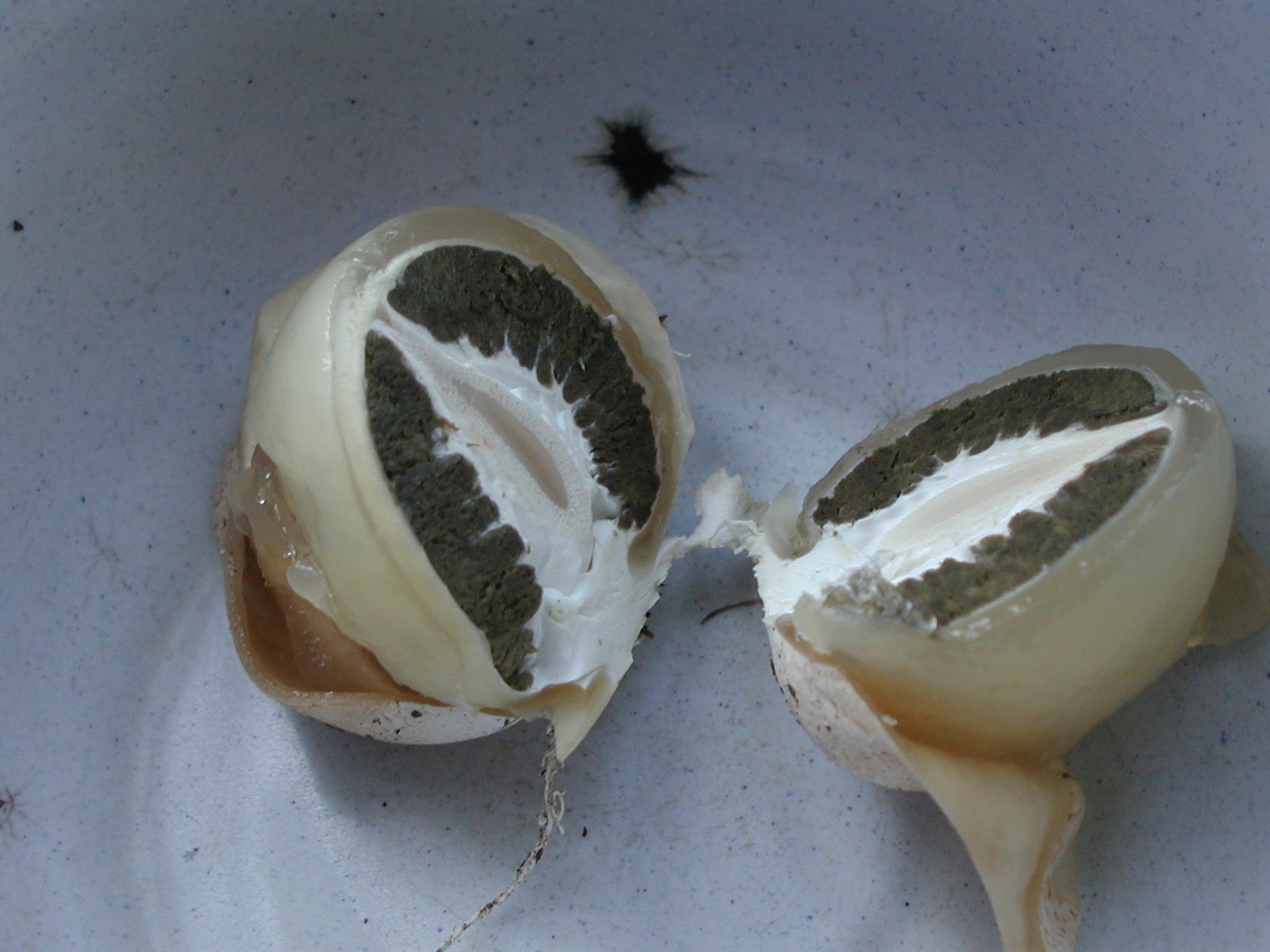 Phallus impudicus (egg stage)